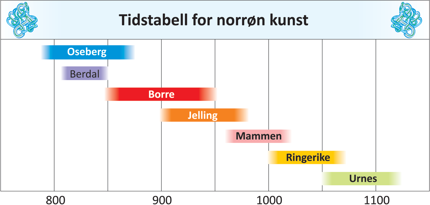 Timeline of norse art in the middle ages. This is a Norwegian version of the German one above, but designed differently